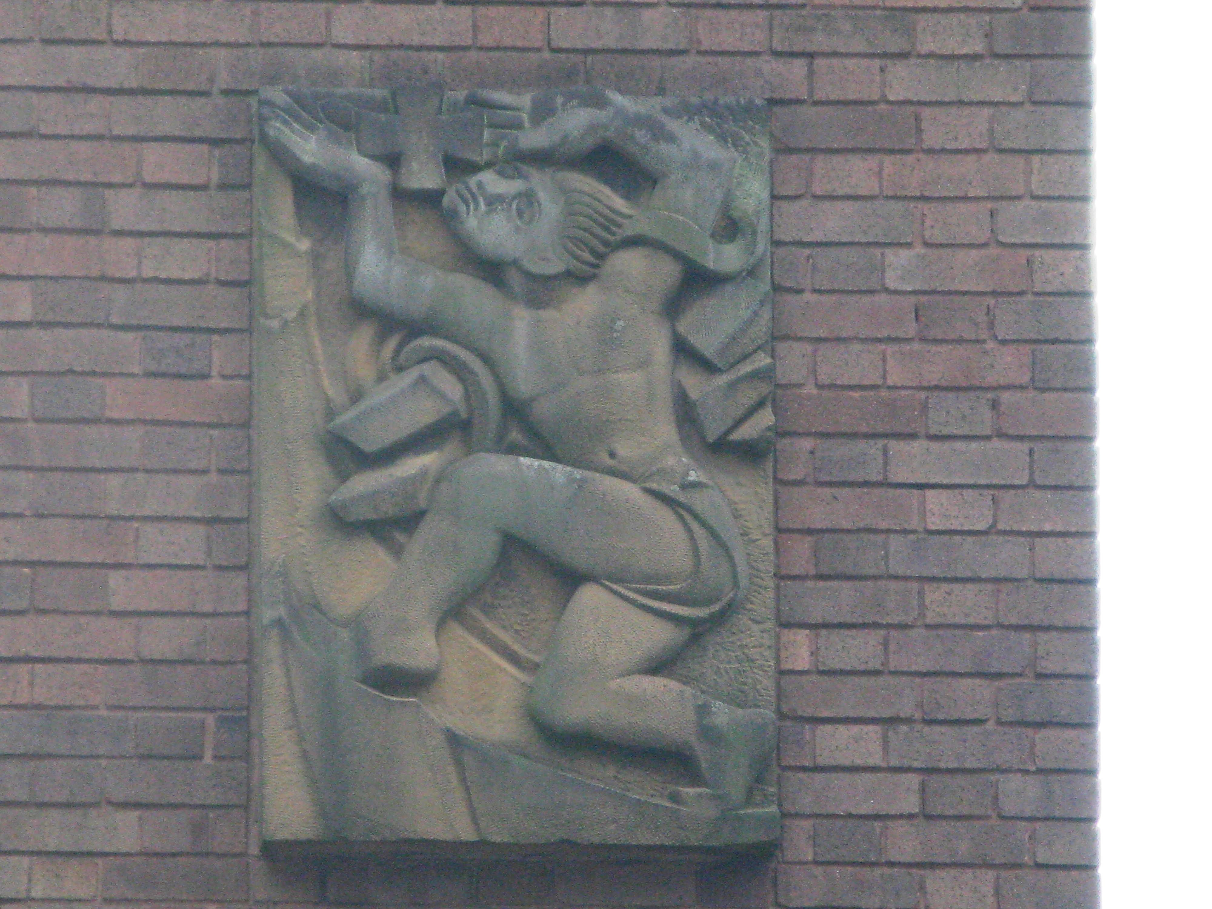 Warwick Road